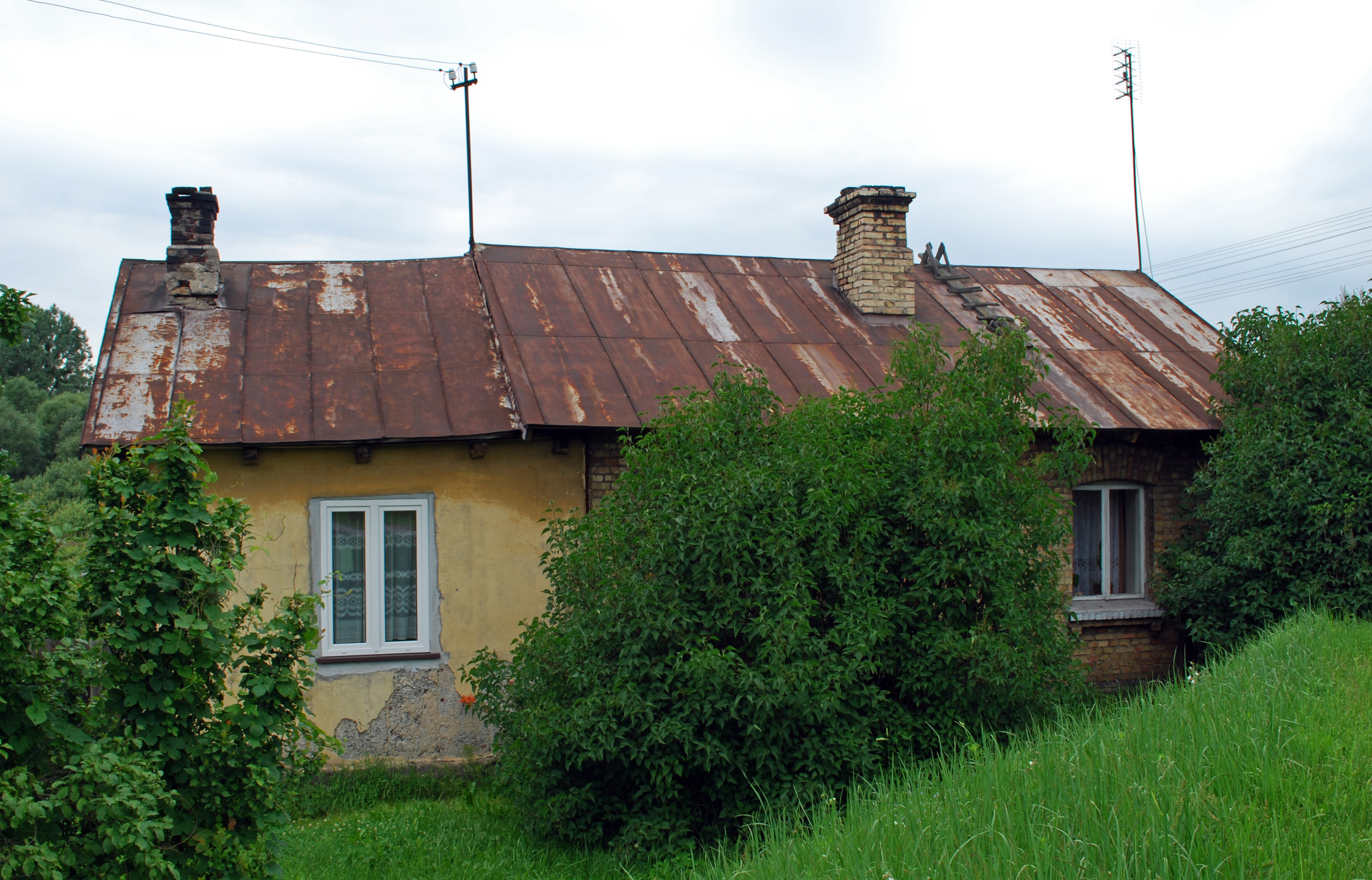 This photo from Podlaskie Voievodeship was taken during Polish Wikiexpedition 2009 set up by Wikimedia Polska Association. The making of this document was supported by Wikimedia Polska. Dom Dróznika z 1908 r. w Hajnówce